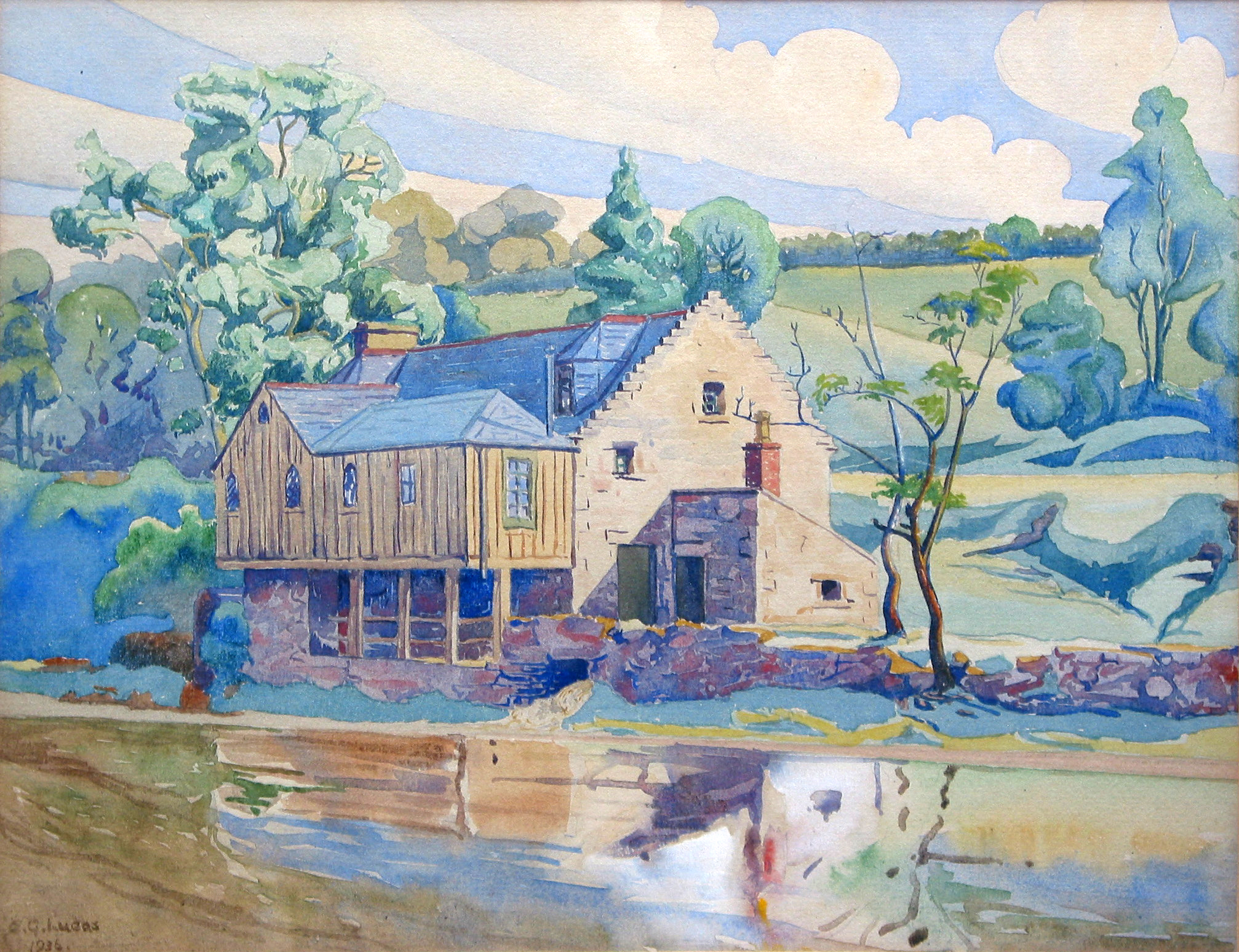 Watercolour painting by Edwin G Lucas, painted in 1936